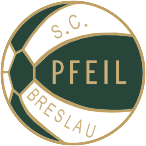 Logo of SC Pfeil Breslau, German football team.